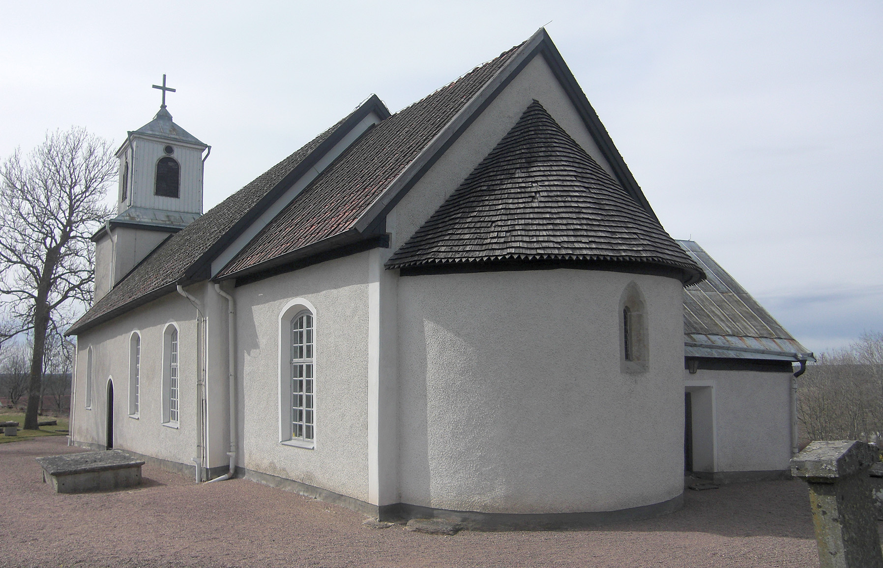 Vilske-Kleva church is 12th Century church in romanesque style in the Diocese of Skara, Sweden (or Vilske-Kleva parish, Vilske hundred, Västergötland, or Falköping Municipality, Västra Götaland). Exterior view.